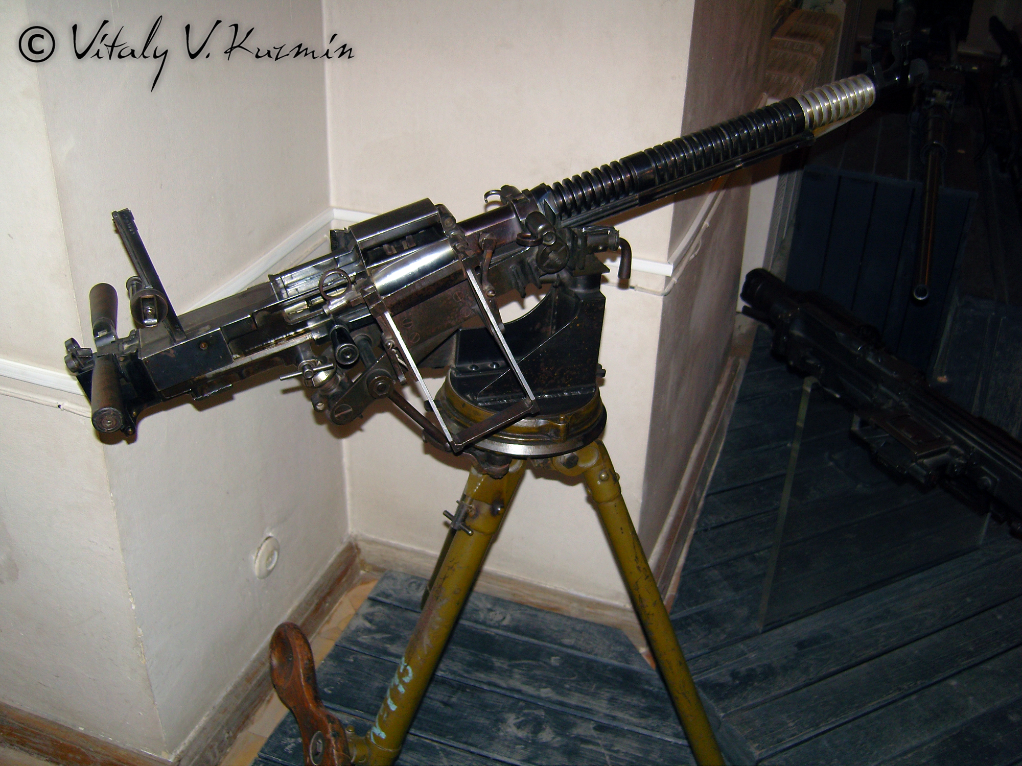 TKB-67 heavy machine gun by Silin (GAU index 56-P-427)